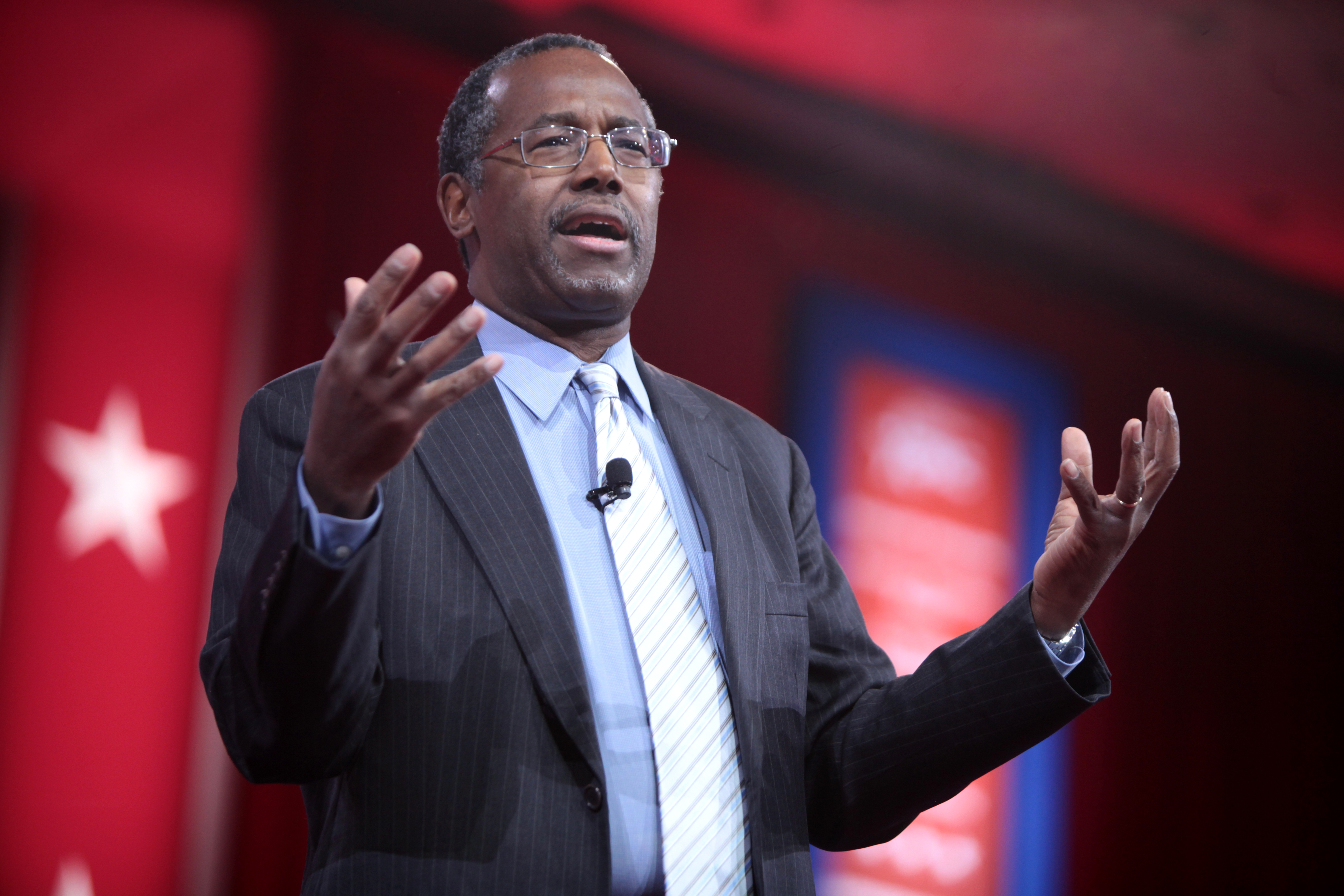 Ben Carson speaking at CPAC 2015 in Washington, DC.